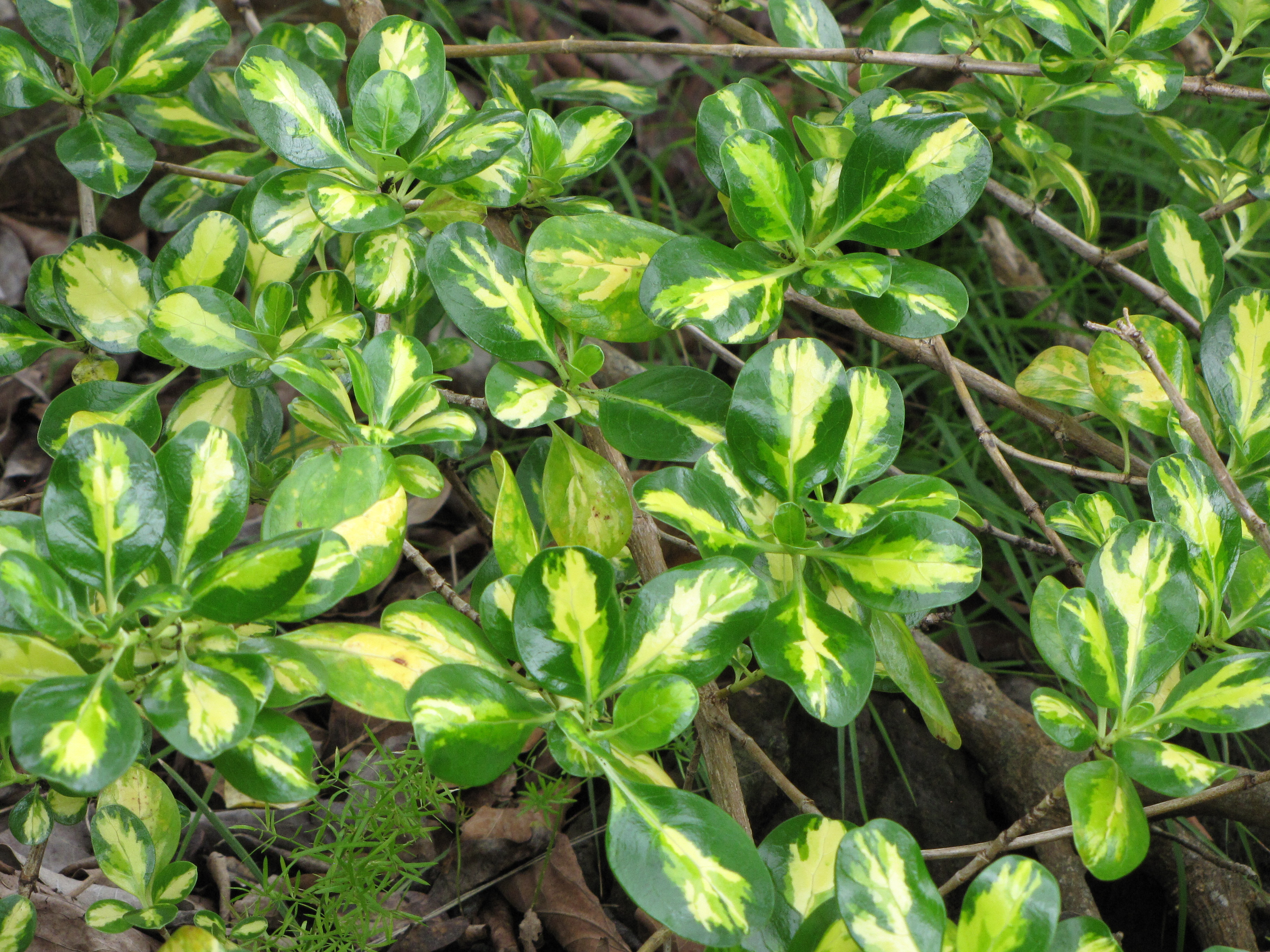 Coprosma repens (Looking glass plant) Leaves at Kula Botanical Garden, Maui, Hawaii. March 07, 2011 #110307-2694 Image Use Policy